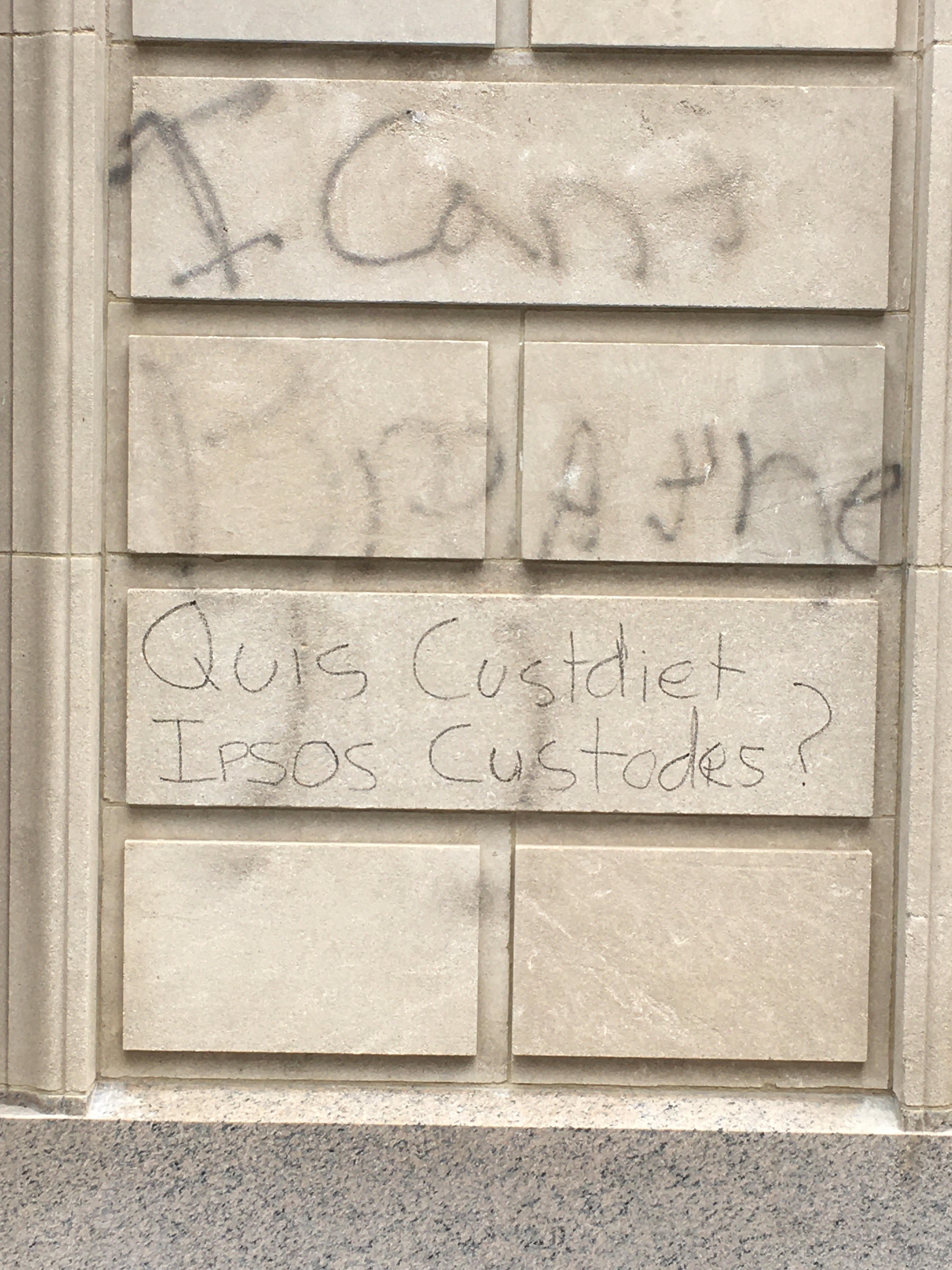 Latin phrase "Quis cusodiet ipsos custodes" written on a building in Washington, DC during the George Floyd protests